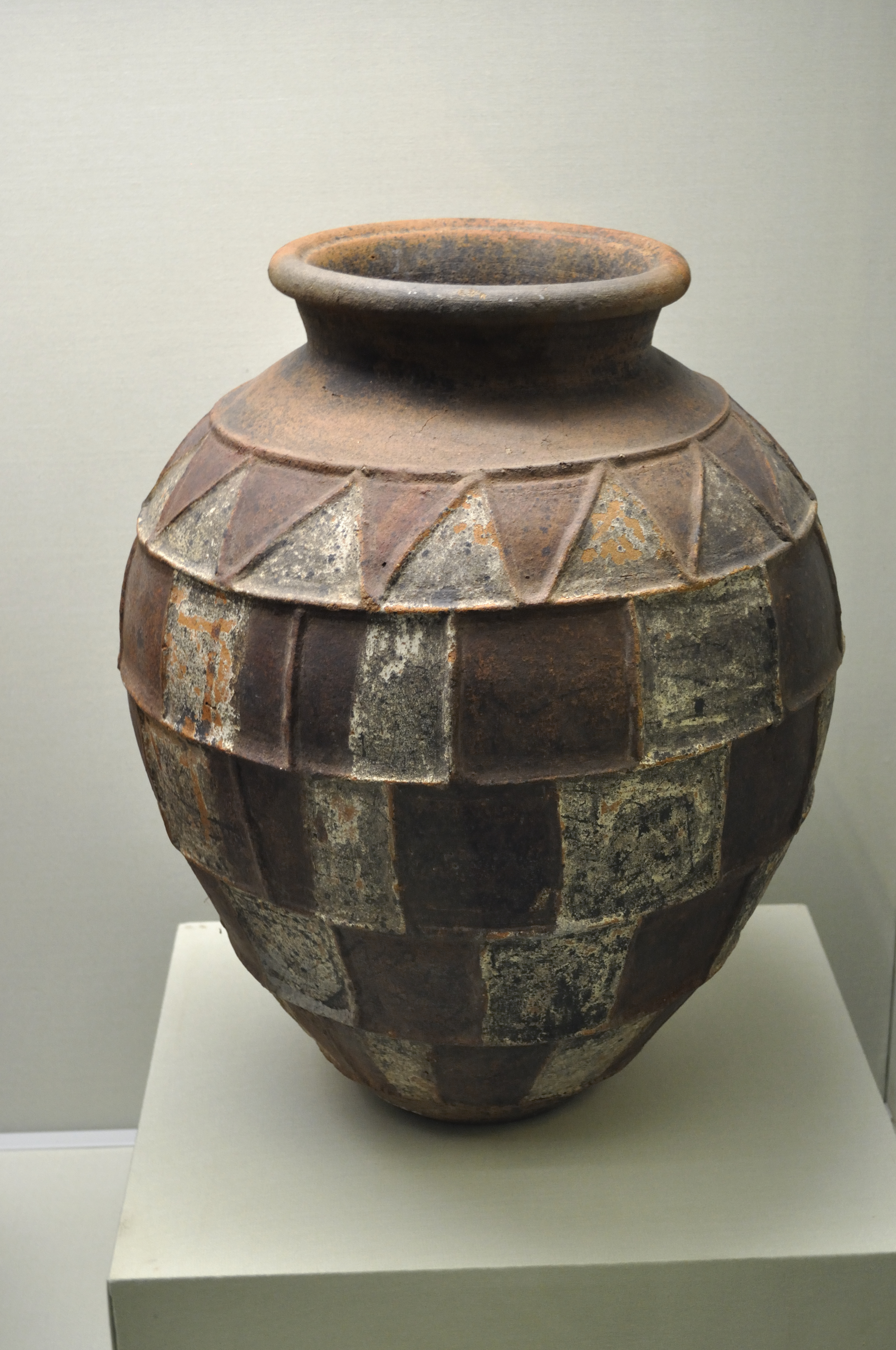 Picture taken in Hetjens-Museum Düsseldorf before Duisburg summer meetup 2010.